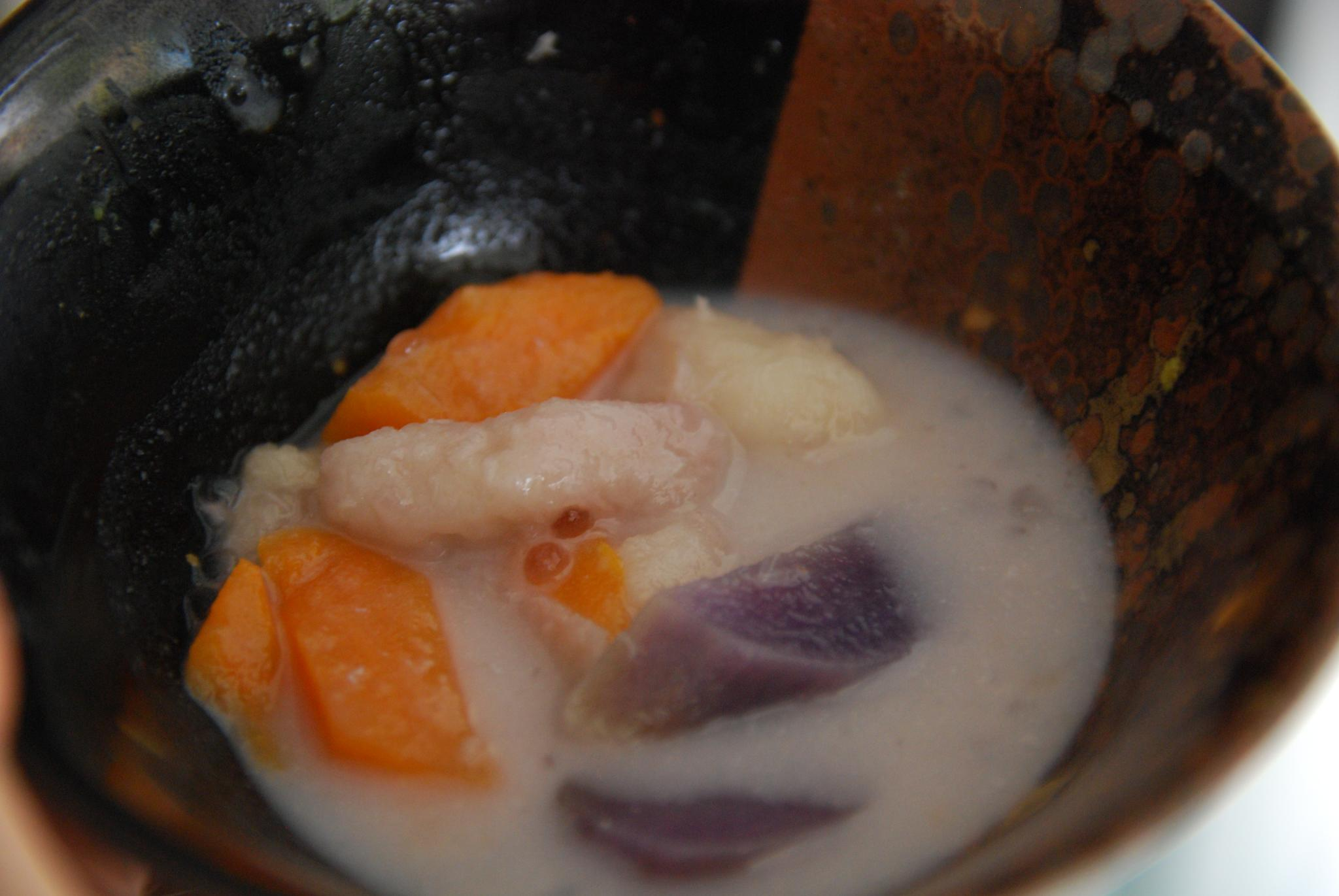 Peter's Mum's Bubur Cha Cha